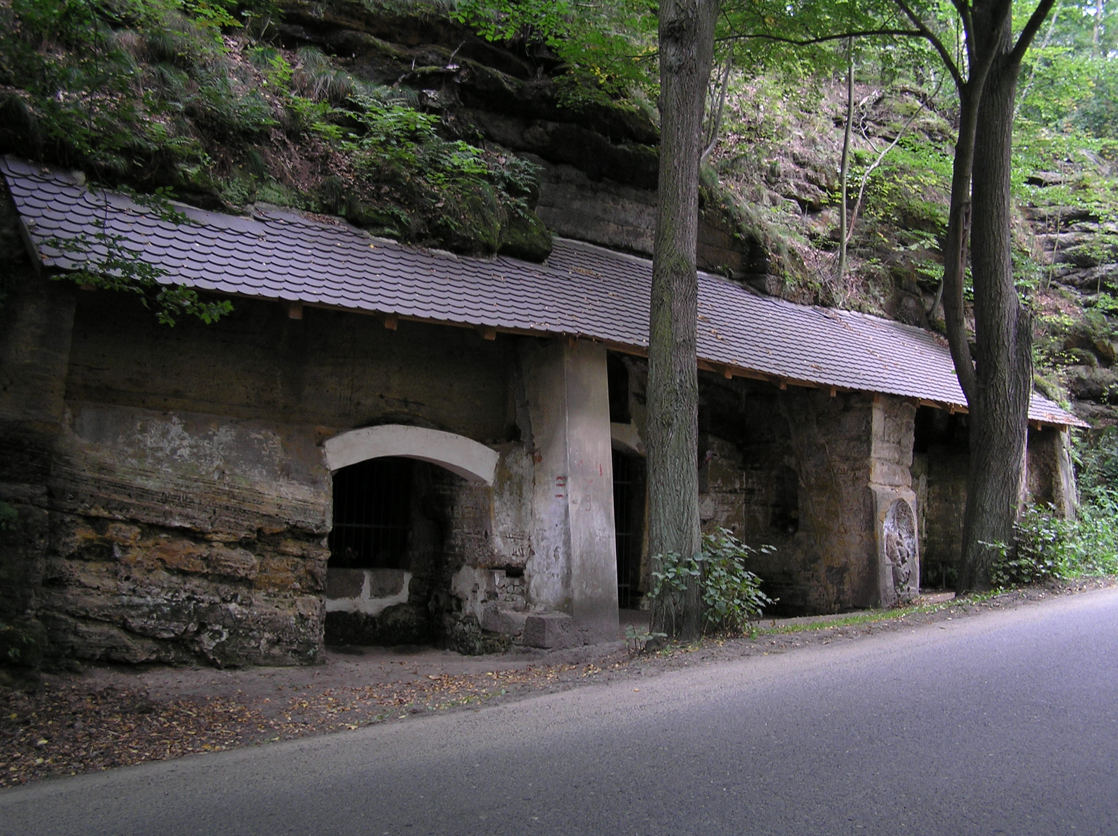 Boží hrob (Gottesgrab) near Velenice (Wellnitz), Česká Lípa District, Czech Republic